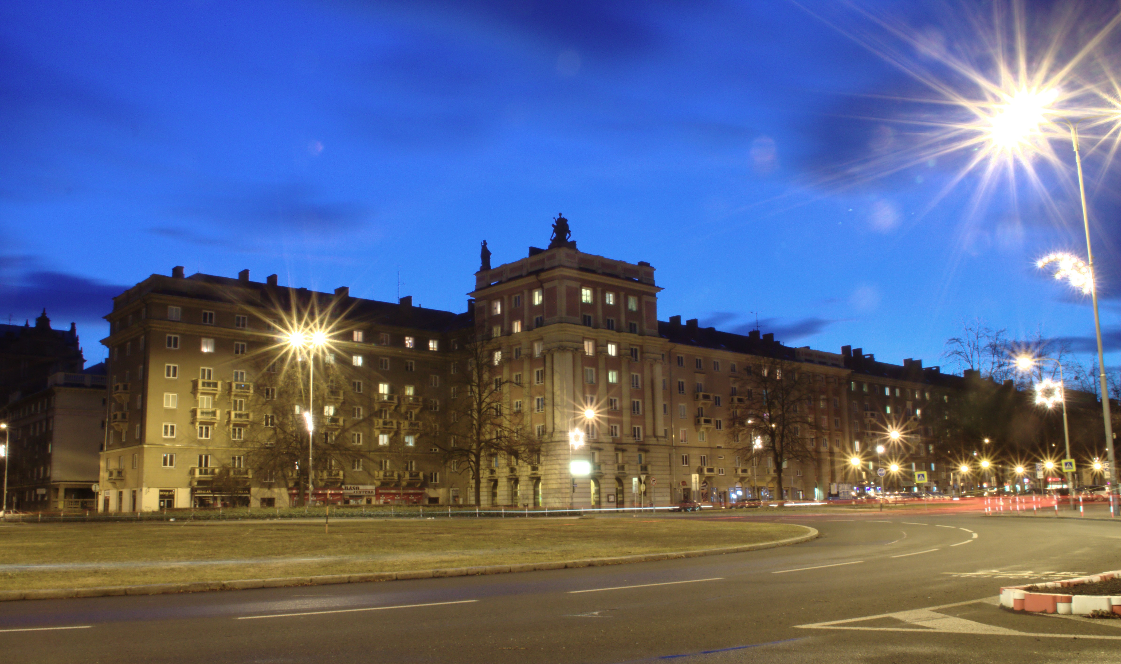 A roundabout in Ostrava-Poruba with an illuminated socialist realism-styled building in the very centre of Poruba, Ostrava, CZ Project: Fotíme Česko